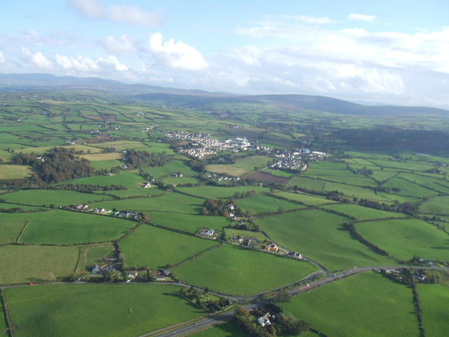 Artigarvan, Strabane. The village of Artigarvan, as seen from above the A5 near Strabane.